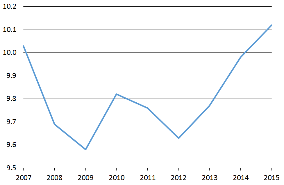 Usain Bolt 100 metres progression to 2015